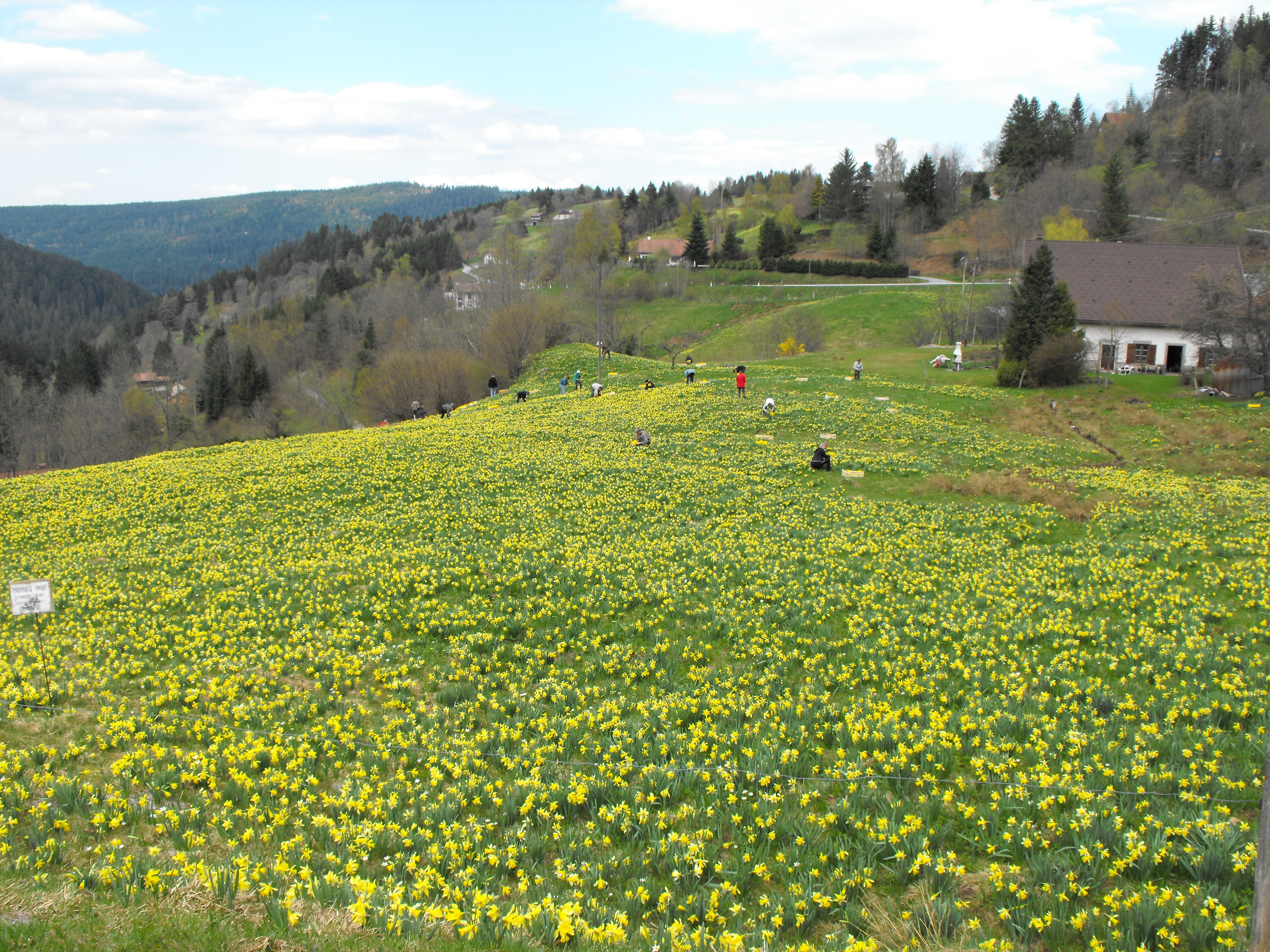 Picking daffodils in Bas-Rupts.